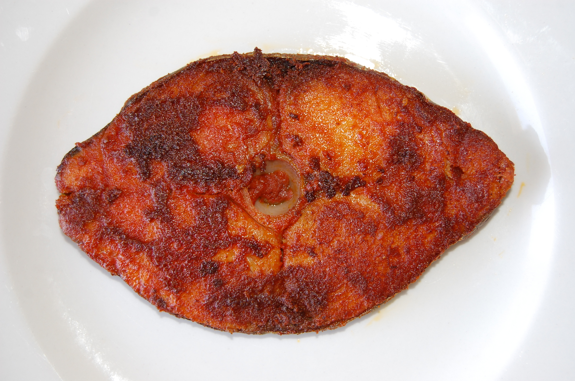 Seer Fish Fry [ South Indian Style ]